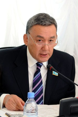 Photo of Jolshybekov.